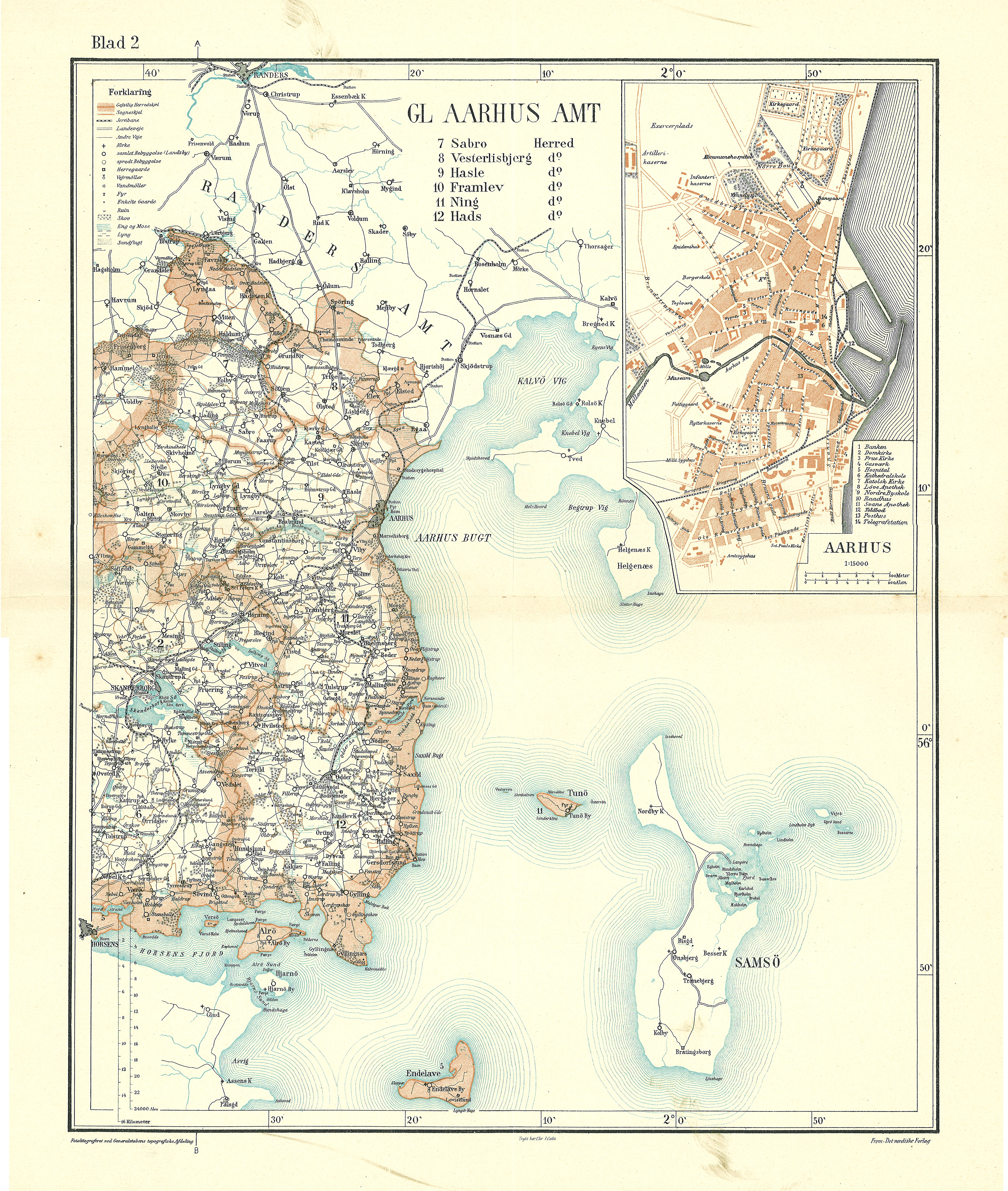 Map of Århus County in Denmark